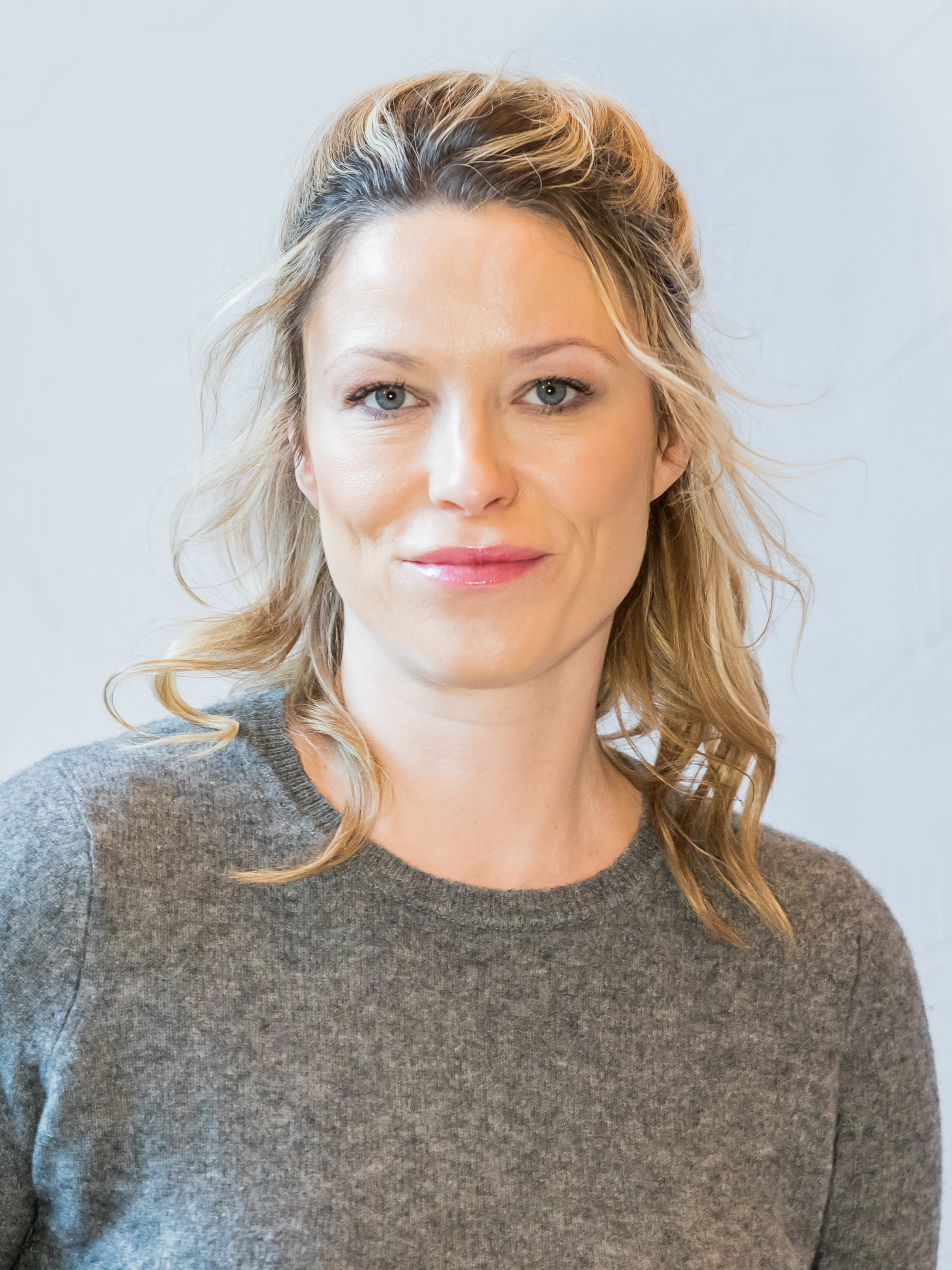 Reception for Patricia Arquette and Kiera Chaplin in Cologne City Hall Photography: Kiera Chaplin